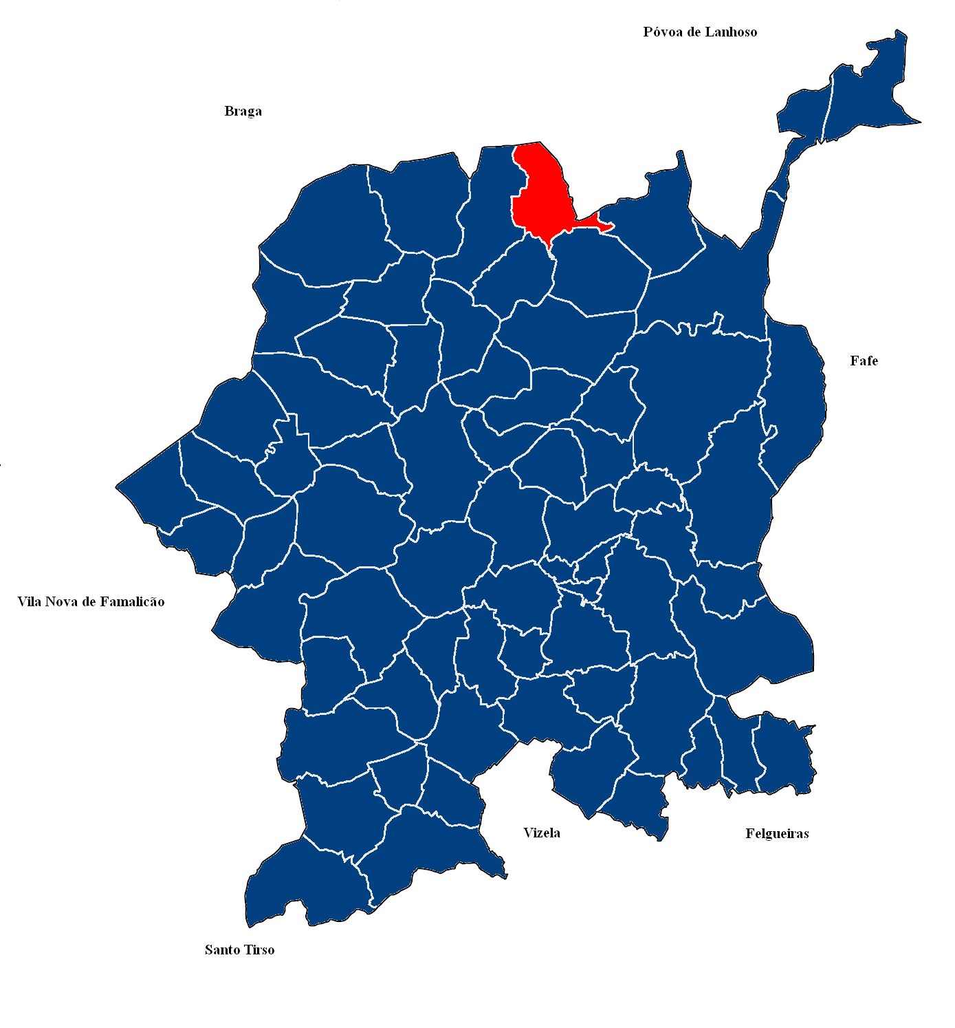 Map of Donim parish, Guimarães Municipality, Portugal